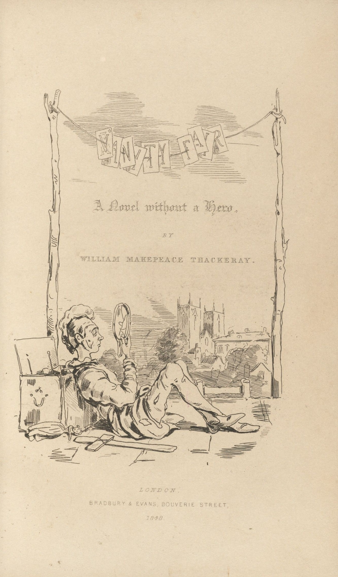 Title page from Vanity Fair: a novel without a hero, London: Bradbury & Evans, 1848, by William Makepeace Thackeray (1811-1863). Scanned from the personal copy owned by William Charles Macready. *EC85 T3255 848vb, Houghton Library, Harvard University